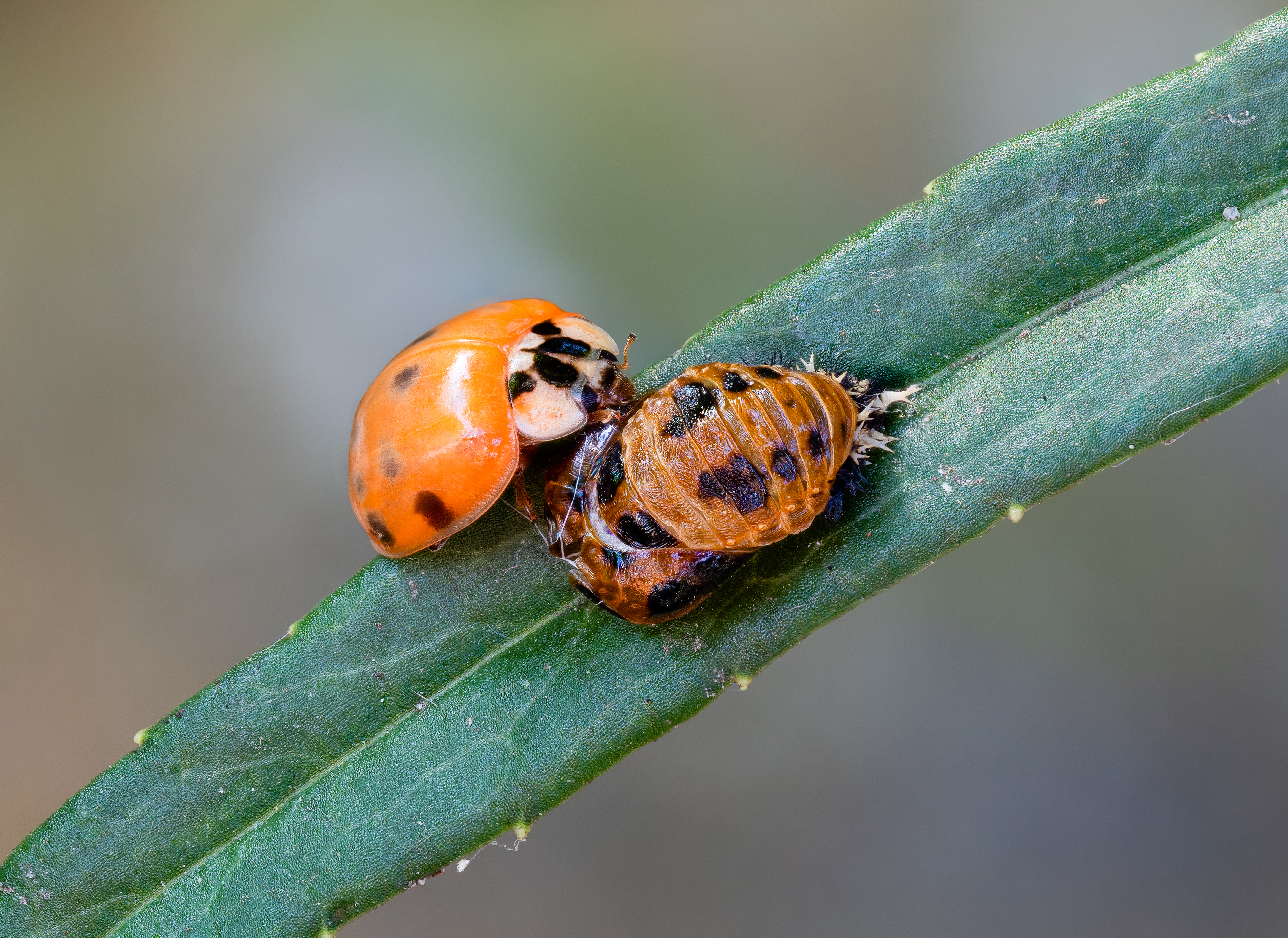 Ladybird (Harmonia axyridis) and empty pupa